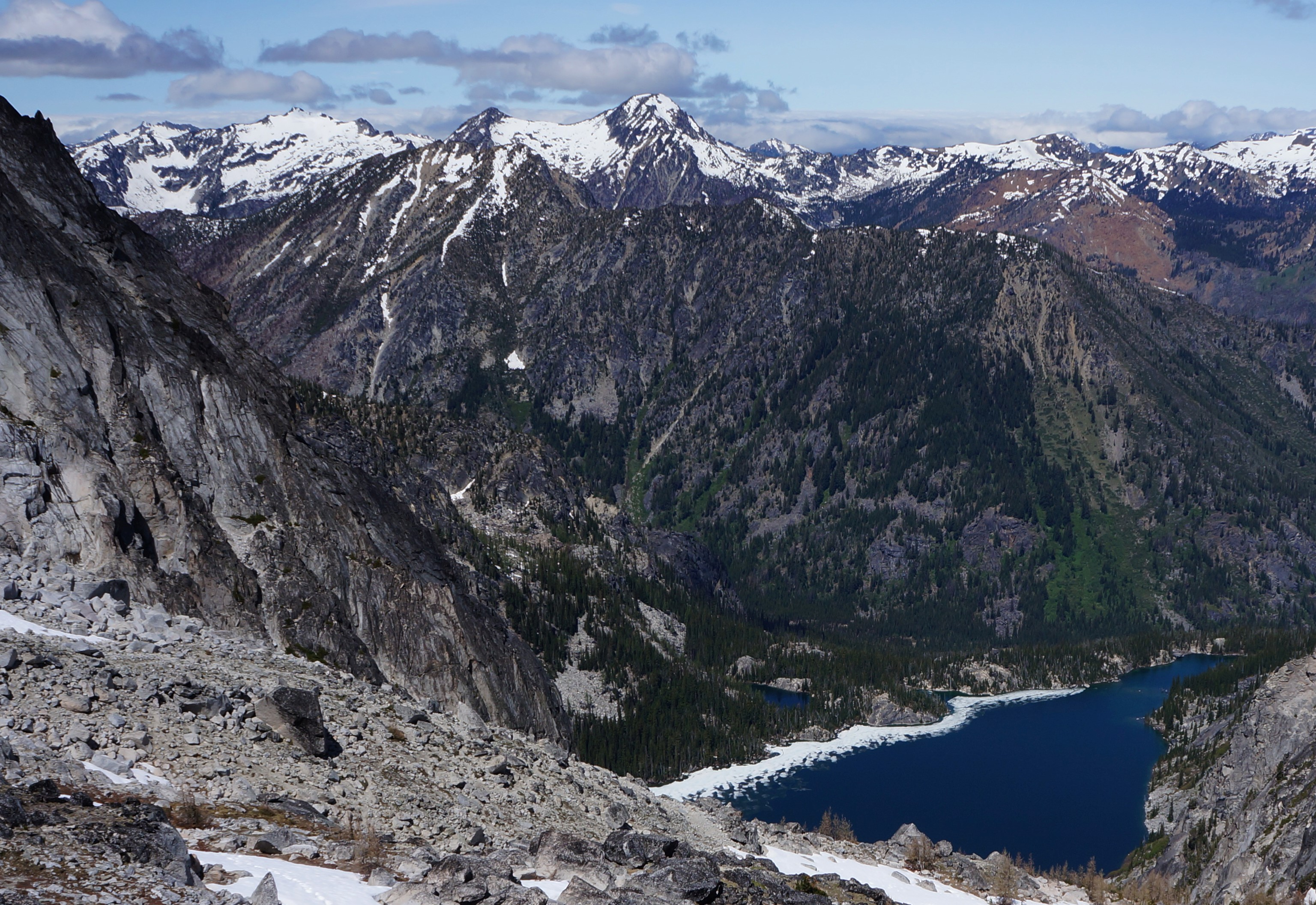 Lake Colchuck from the top of the Aasgard Pass with Eightmile Mountain centered in the distance